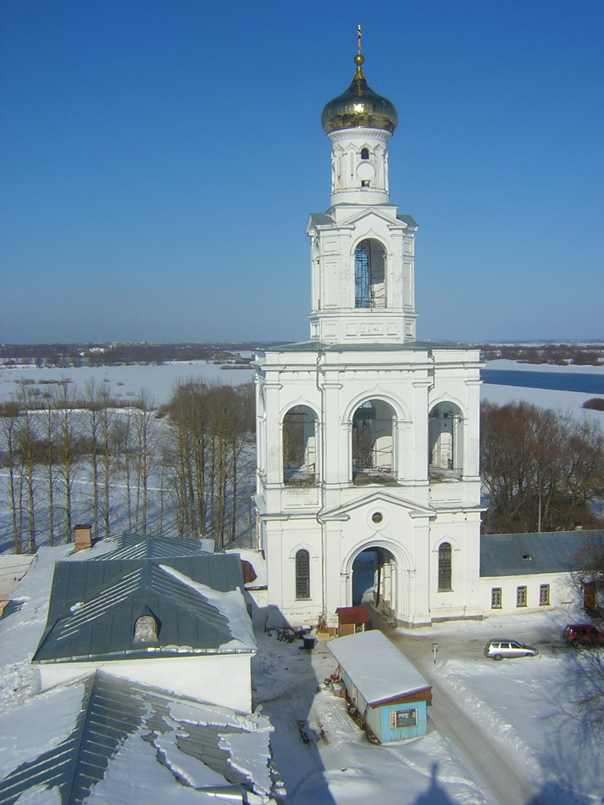 Bell tower in St.George monastery in Veliky Novgorod